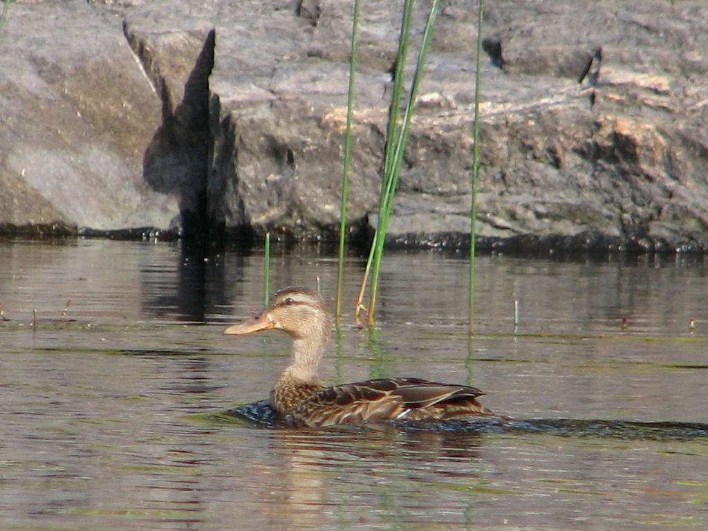 Quetico Provincial Park, Ontario